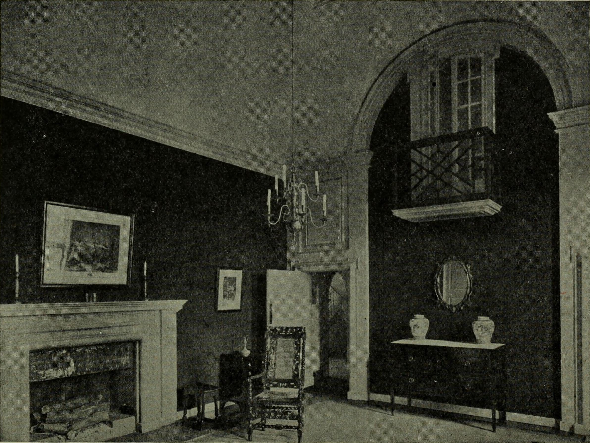 Illustration of Folly Farm, Sulhamstead, Berkshire in "Lutyens houses and gardens" (1921).